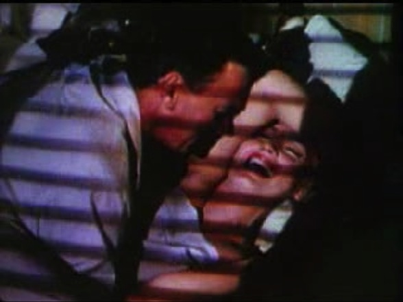 Marilyn Monroe laughs in bed with Joseph Cotten in the theatrical trailer of the 1953 film Niagara directed by Henry Hathaway.